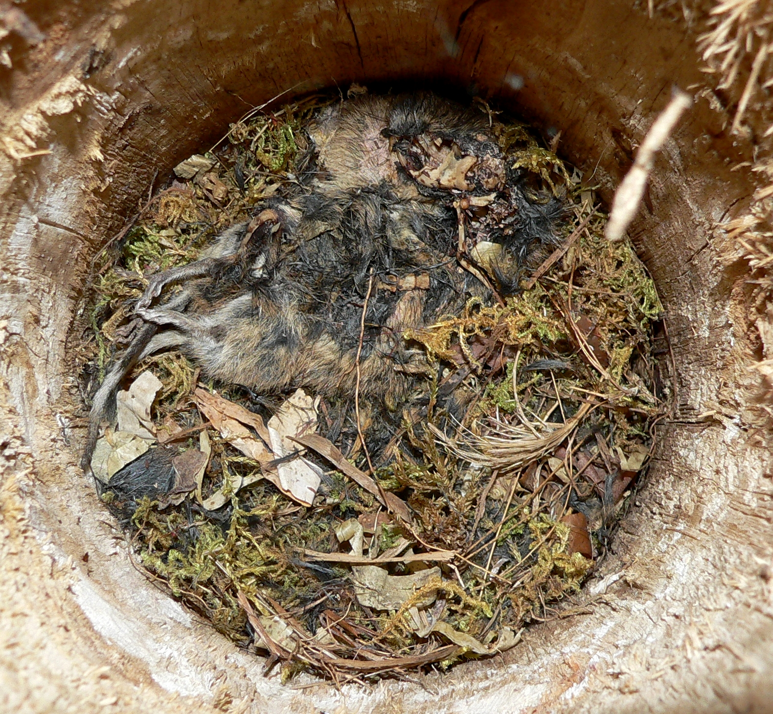 Pygmy owl (Glaucidium passerinum), old food store in nest box; Kauhava, western Finland